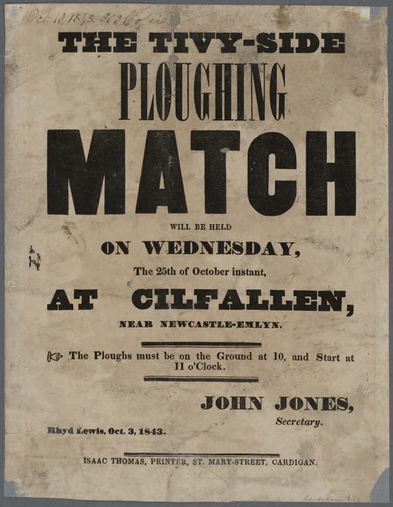 The Tivy-side Ploughing Match At Cilfallen